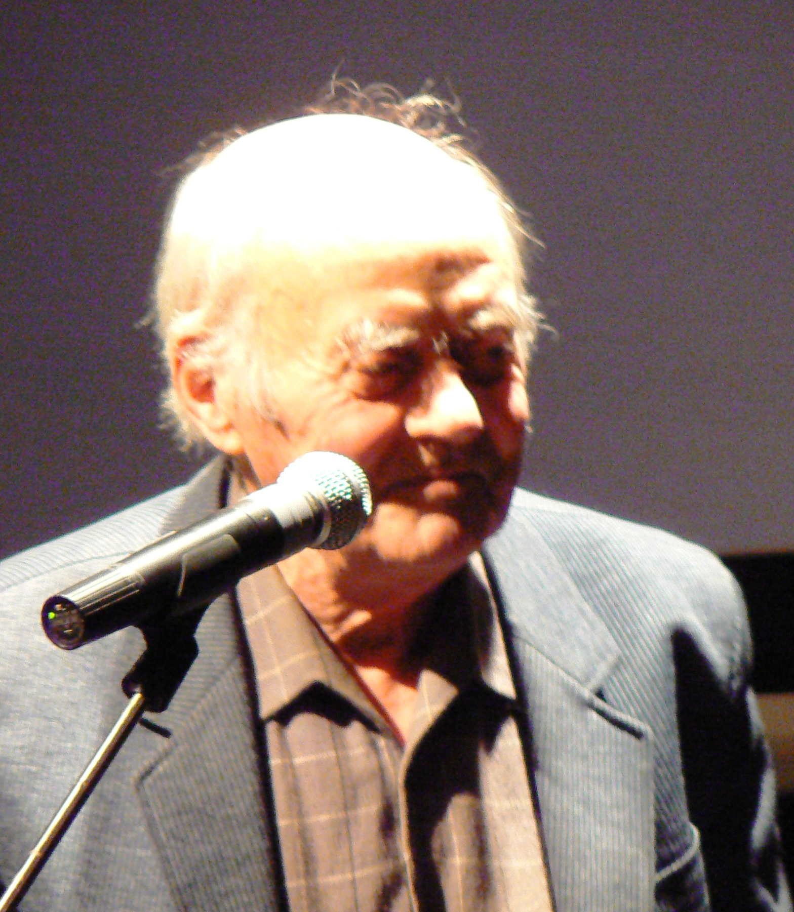 Bulgarian poet and screenwriter Parvan Stefanov